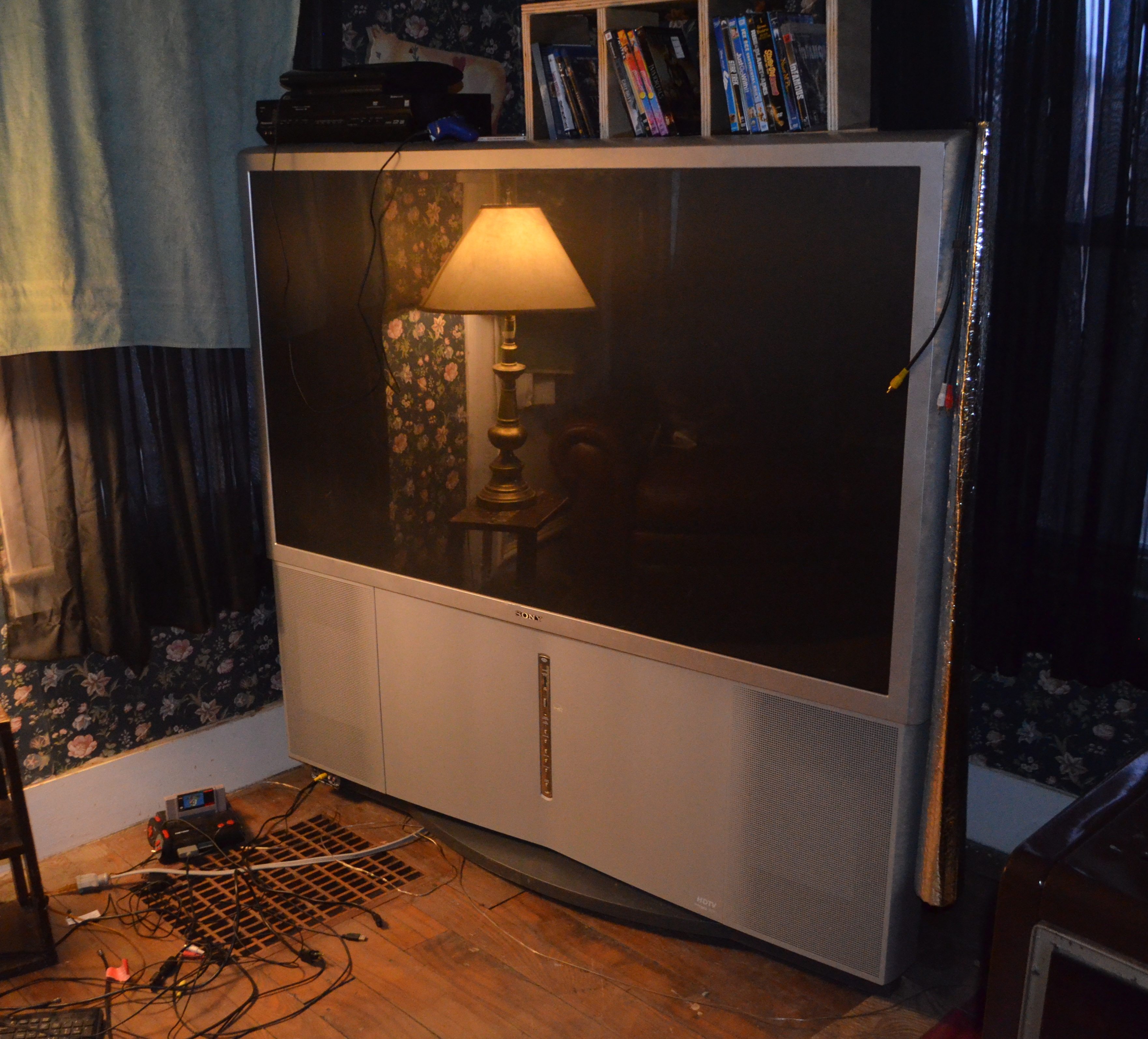 Sony Large screen 65" rear projection TV with ATSC digital OTA tuner, DVI and component inputs for use of 1080i resolution. Playstation 3 and VHS/DVD. NES/SNES emulator. TV is highly outdated but was released at over $3000 circa 2004.